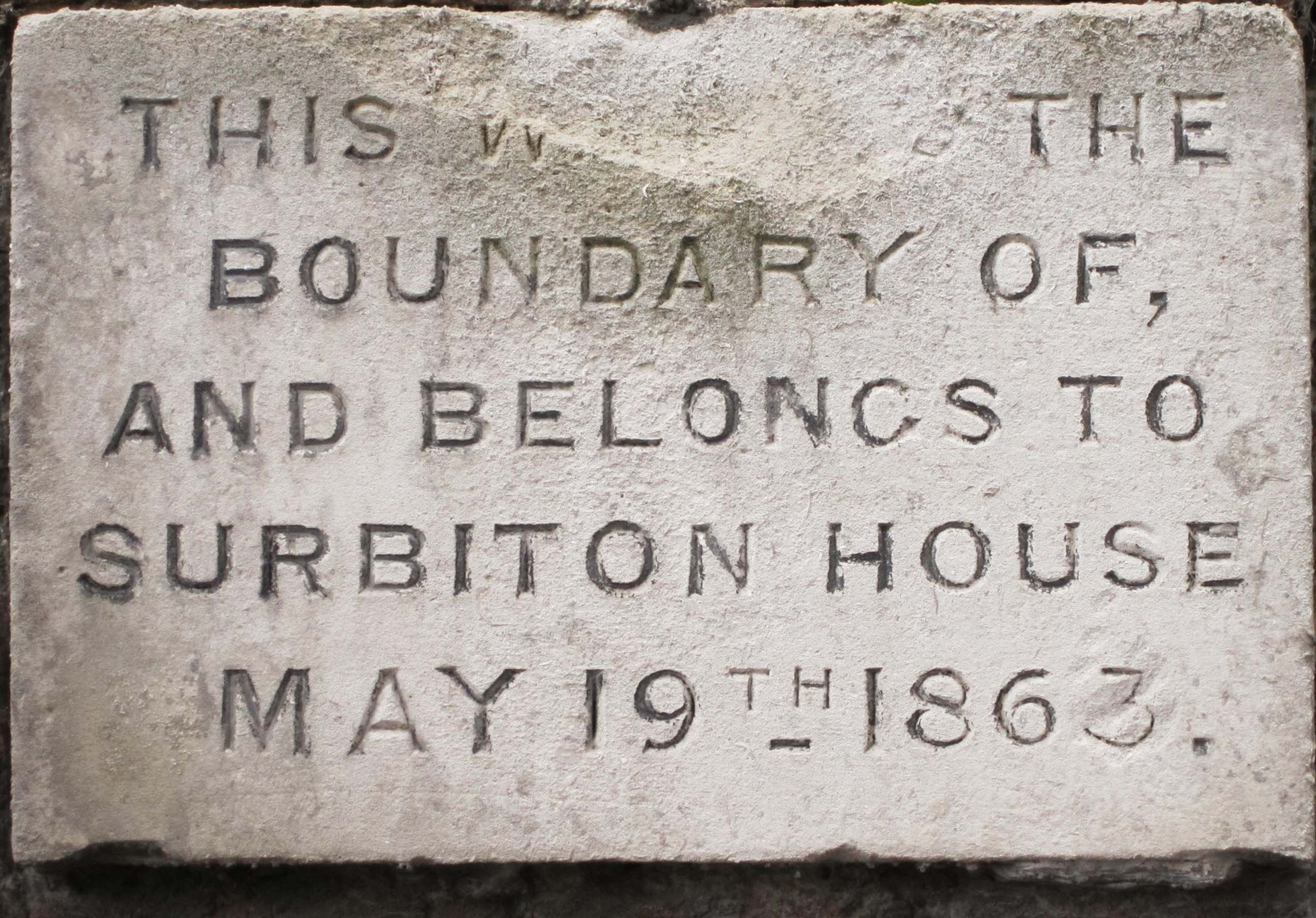 Plaque on wall which was formerly the northern boundary of the grounds of Surbiton House.